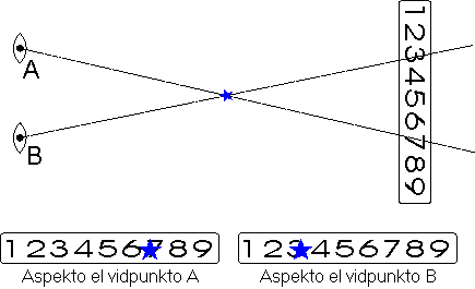 An image showing an example of parallax. Mi, auxtoro de la bildo, permesas al cxiuj uzi gxin kun cxi tiuj kondicxoj